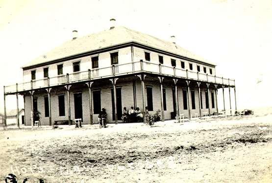 Hotel Edwards, in New Ulysses, Kansas, after the whole town moved with the buildings in 1909 running from public debt.